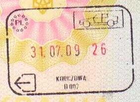 Passport exit stamp from Korczowa border crossing with Ukraine.